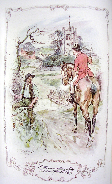 Frontispeace of Mansfield Park, in the Series of English Idylls, published by J.M Dent & Co. (London) and E.P. Dutton & Co. (New York). (I told a man mending an herge that it was Thornton Lacey.